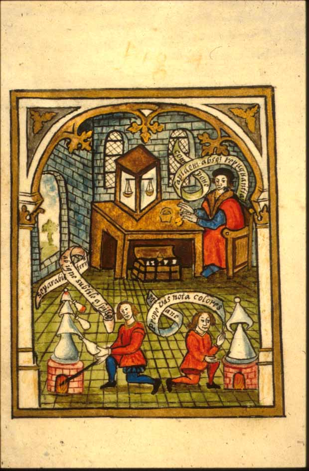 Folio 20v from Thomas Norton The Ordinall of Alchemy England: c.1550-1600 MS Ferguson 191